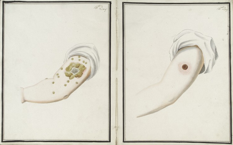 The progress of smallpox (L) and cowpox (R) inoculations sixteen days after administration. From Wellcome Foundation